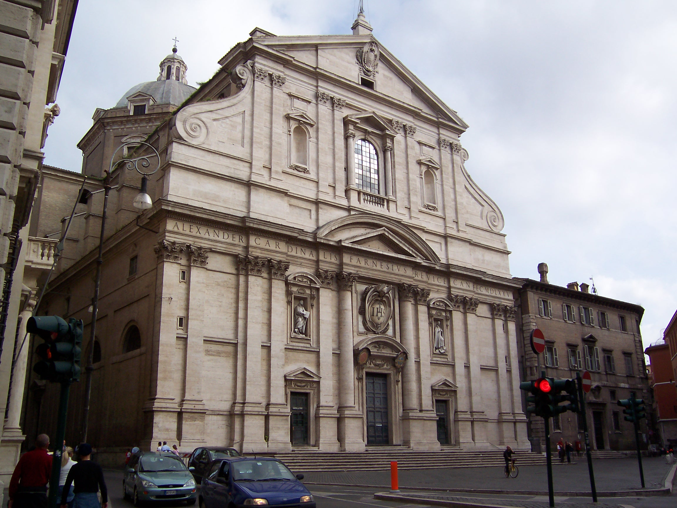 An unknown (to me) building in Rome, Italy